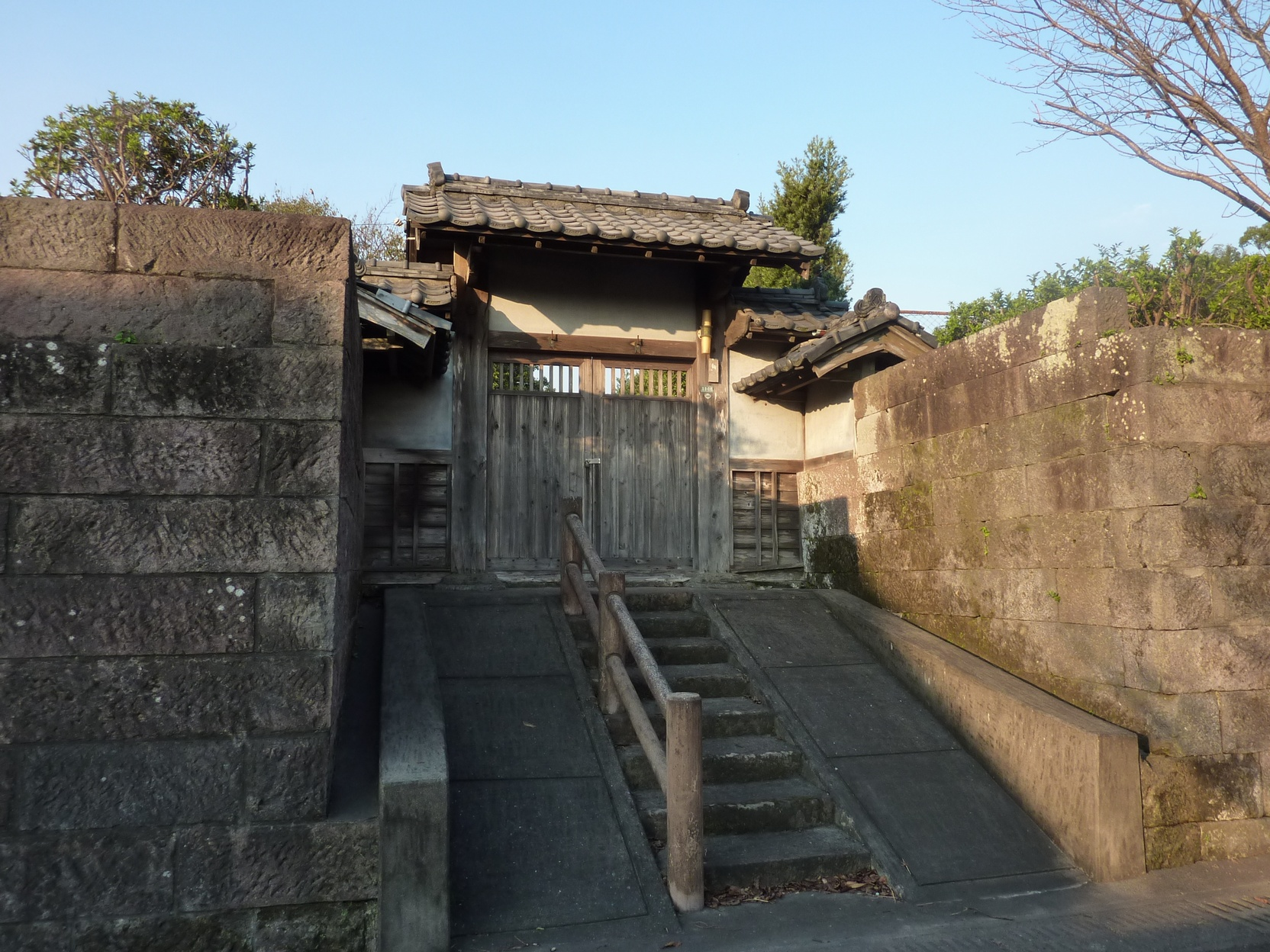 The Gate of Samurai Residence in Kanoya Fumoto (Present Central Kanoya City, Kagoshima Prefecture, Japan)